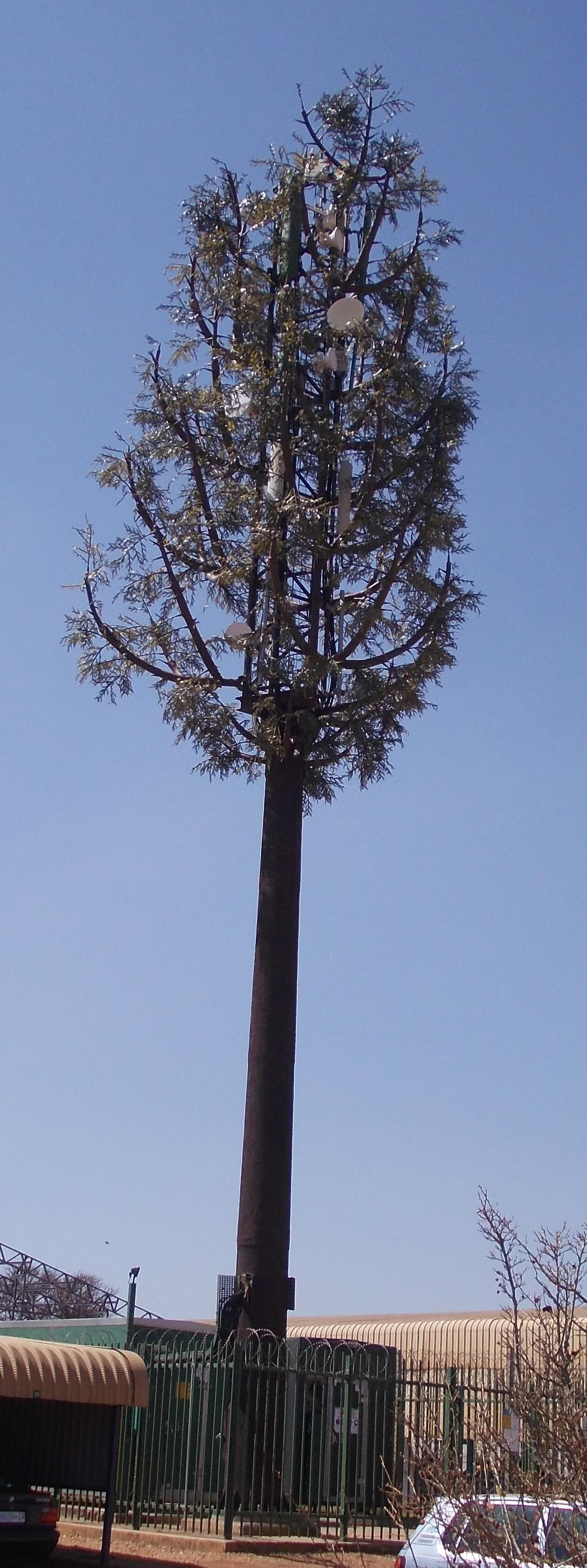 Photograph of a steel tower bearing cellular telephone microwave antennae, camouflaged as a tall tree by means of curved plastic branches and foliage. Johannesburg, Gauteng Province, South Africa.